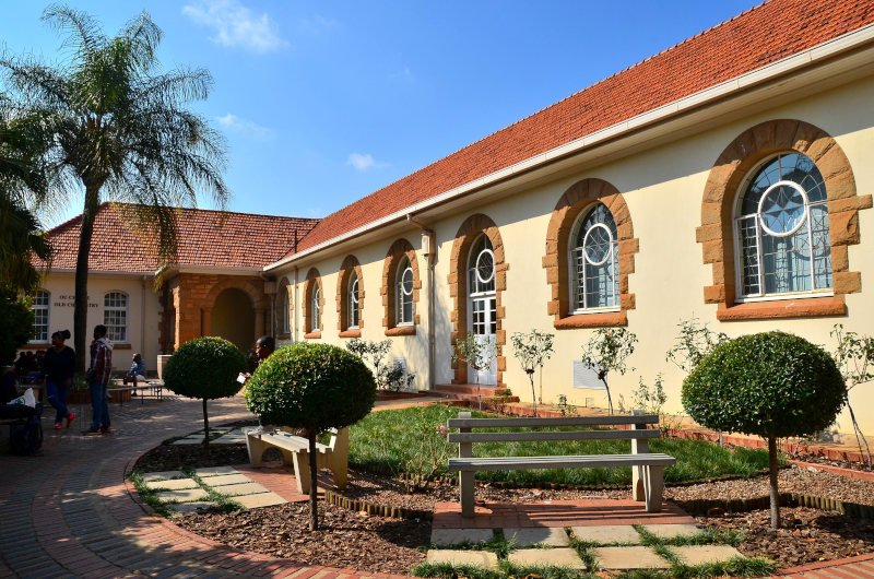 Ou Chemistry Building on the Hatfield campus of the University of Pretoria